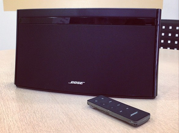 A Bose SoundLink Air wireless speaker